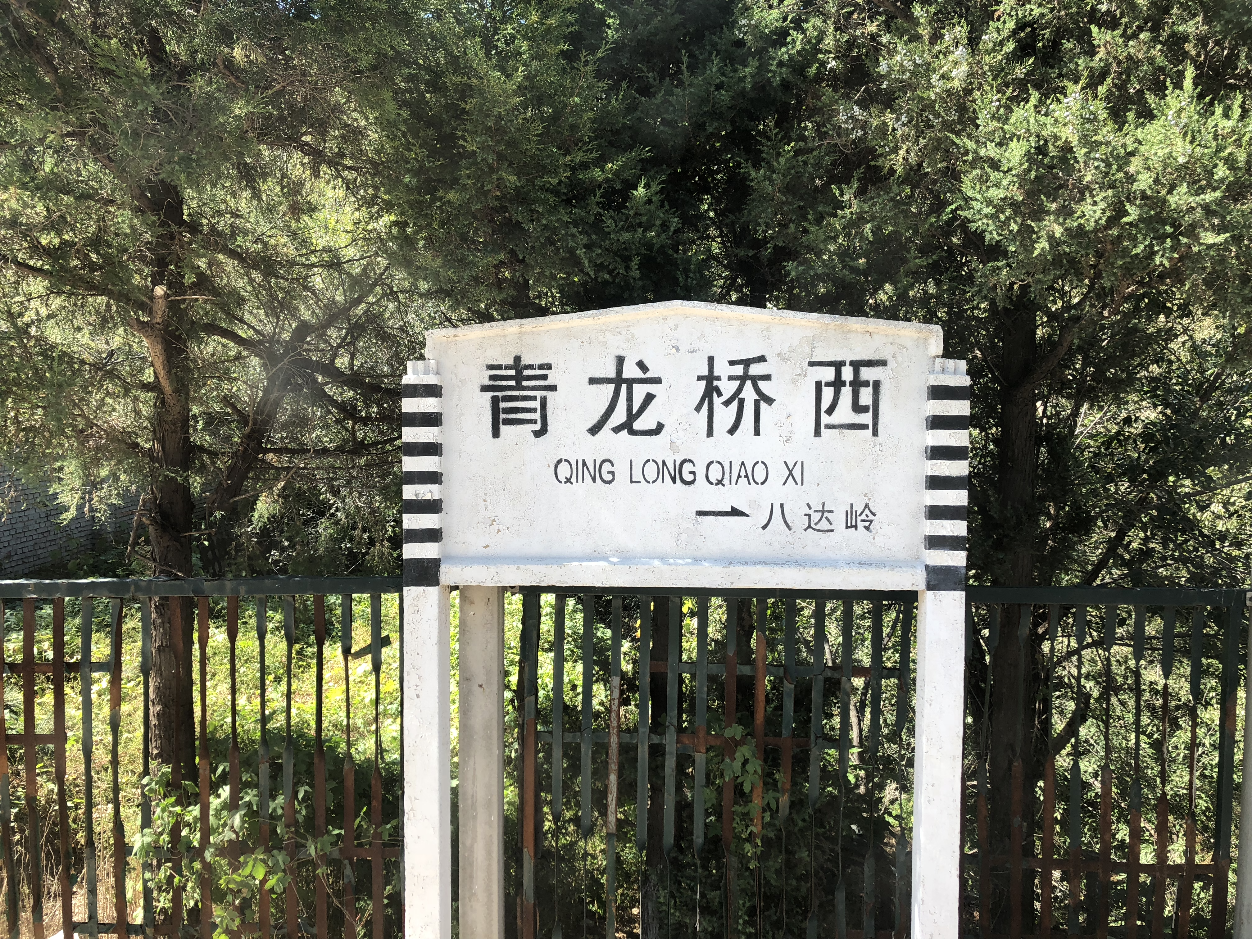 Sign of Qinglongqiaoxi Railway Station